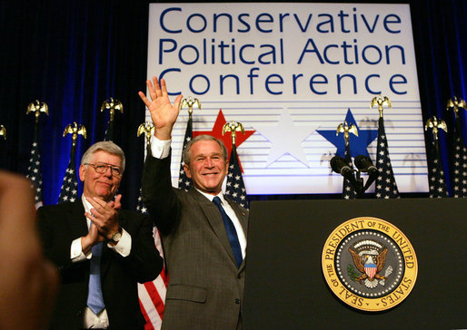 U.S. President George W. Bush speaks at the 2008 Conservative Political Action Conference. To his left is Dave Keene, Chairman of the American Conservative Union.